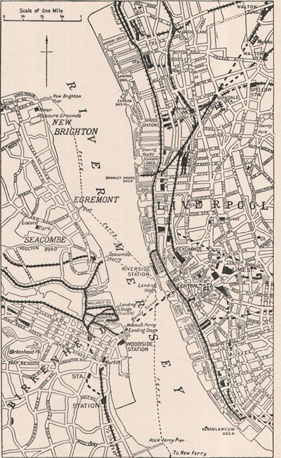 Town plan of Liverpool and the Mersey Estuary, taken from Encyclopaedia Britannica 1911